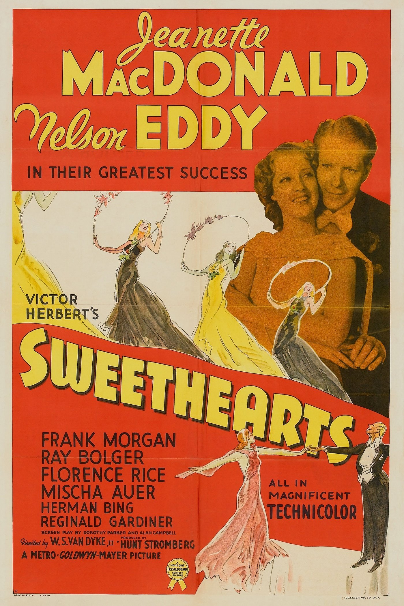 Released in 1938